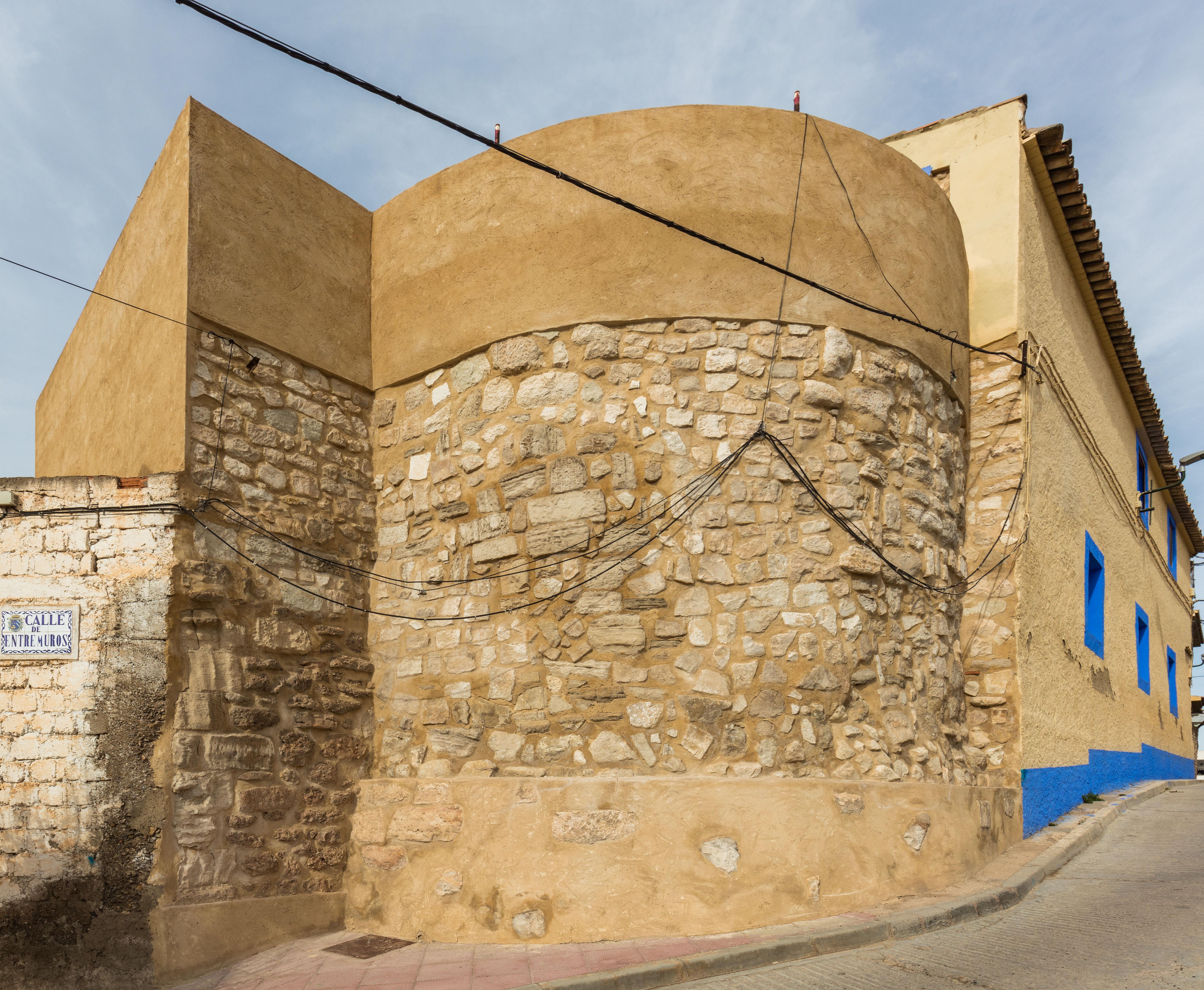 Wall, Épila, Zaragoza, Spain